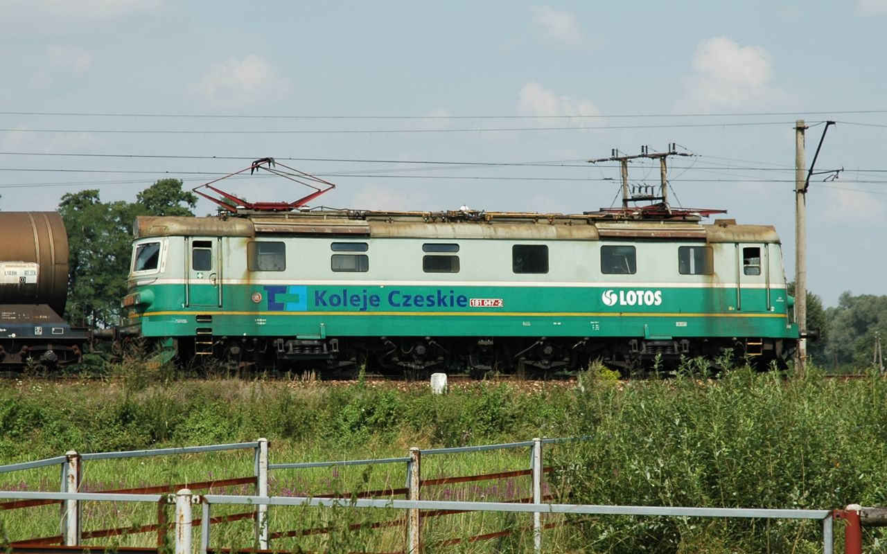 Locomotive 181.047 owned by ČD Cargo with logo of Polish railway operators LOTOS Kolej and Koleje Czeskie; near Jawiszowice Jażnik, Poland